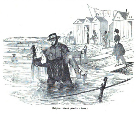 Sea bathing at Boulogne-sur-Mer in the early 1840s. A professional baigneur is holding a lady, preparing to lower her once more in the next wave. Engraving published in L'Illustration Journal Universel, July 1843.